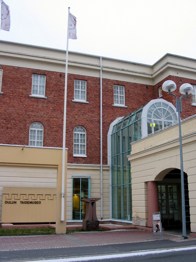 The Oulu City Art Museum Building in Oulu, Finland (renovated leather factory building designed by the architect Birger Federley (1921))